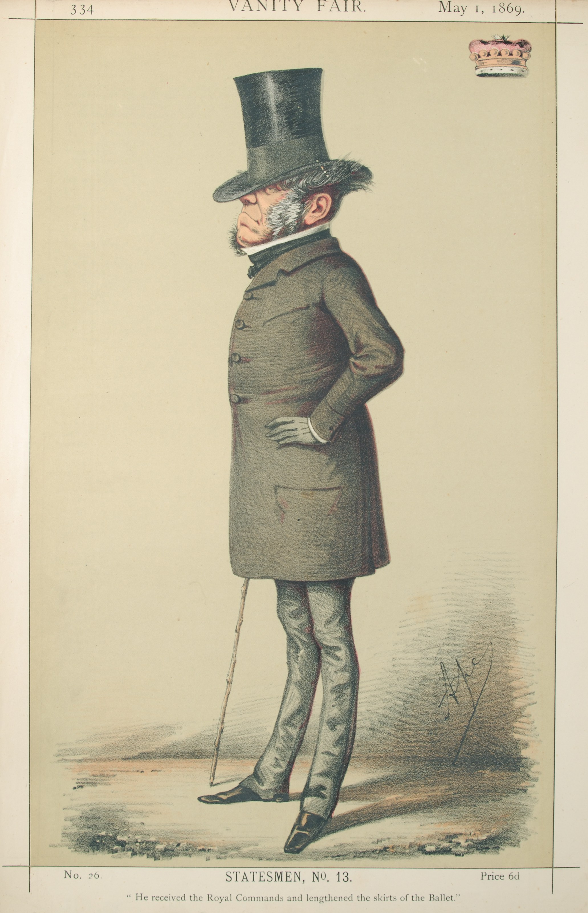 Statesmen No.13: Caricature of The Viscount Sydney. Caption reads: "He received the Royal Commands and lengthened the skirts of the Ballet."